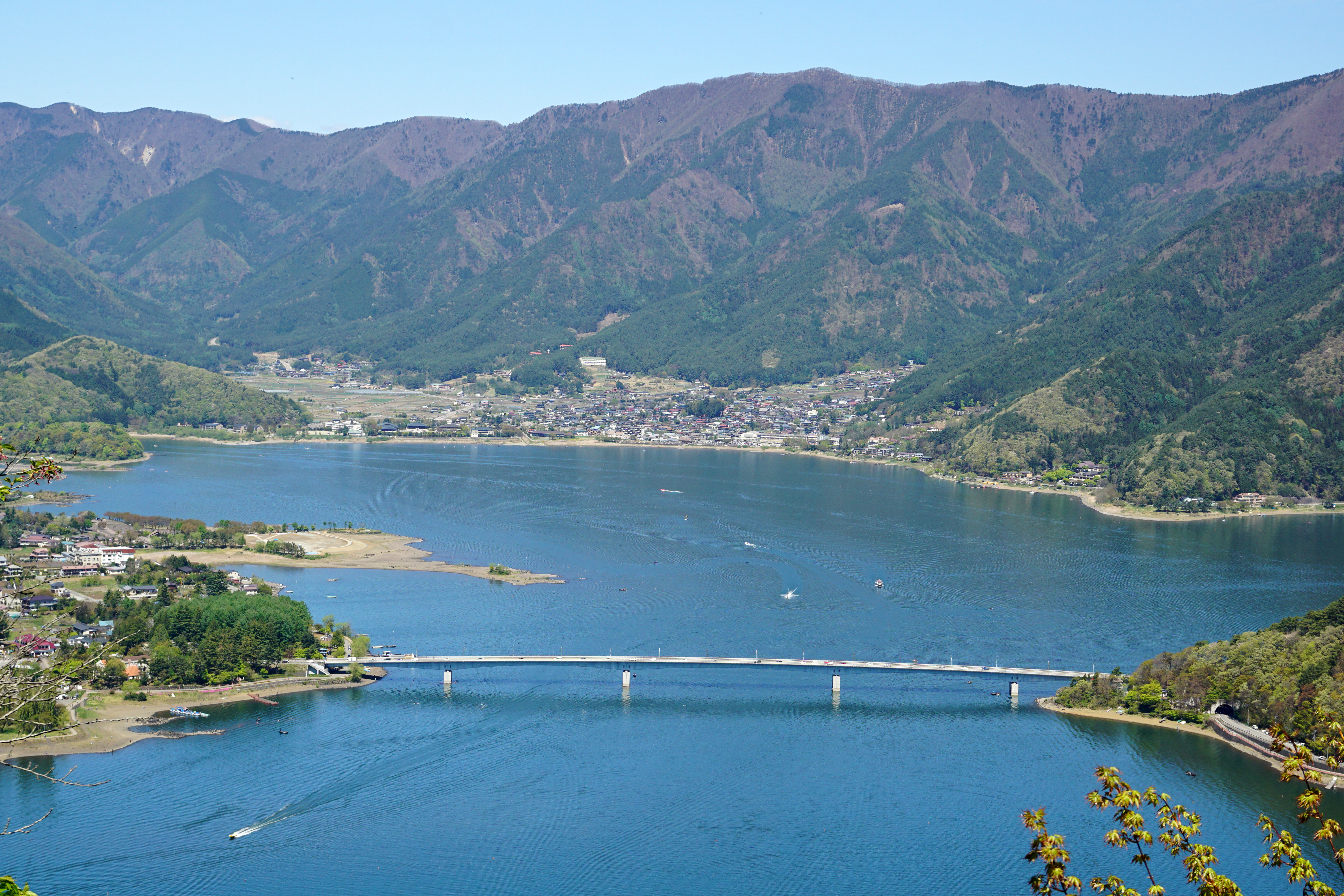 Kawaguchiko Bridge on Lake Kawaguchi in Kawaguchiko, Yamanashi Prefecture, Japan